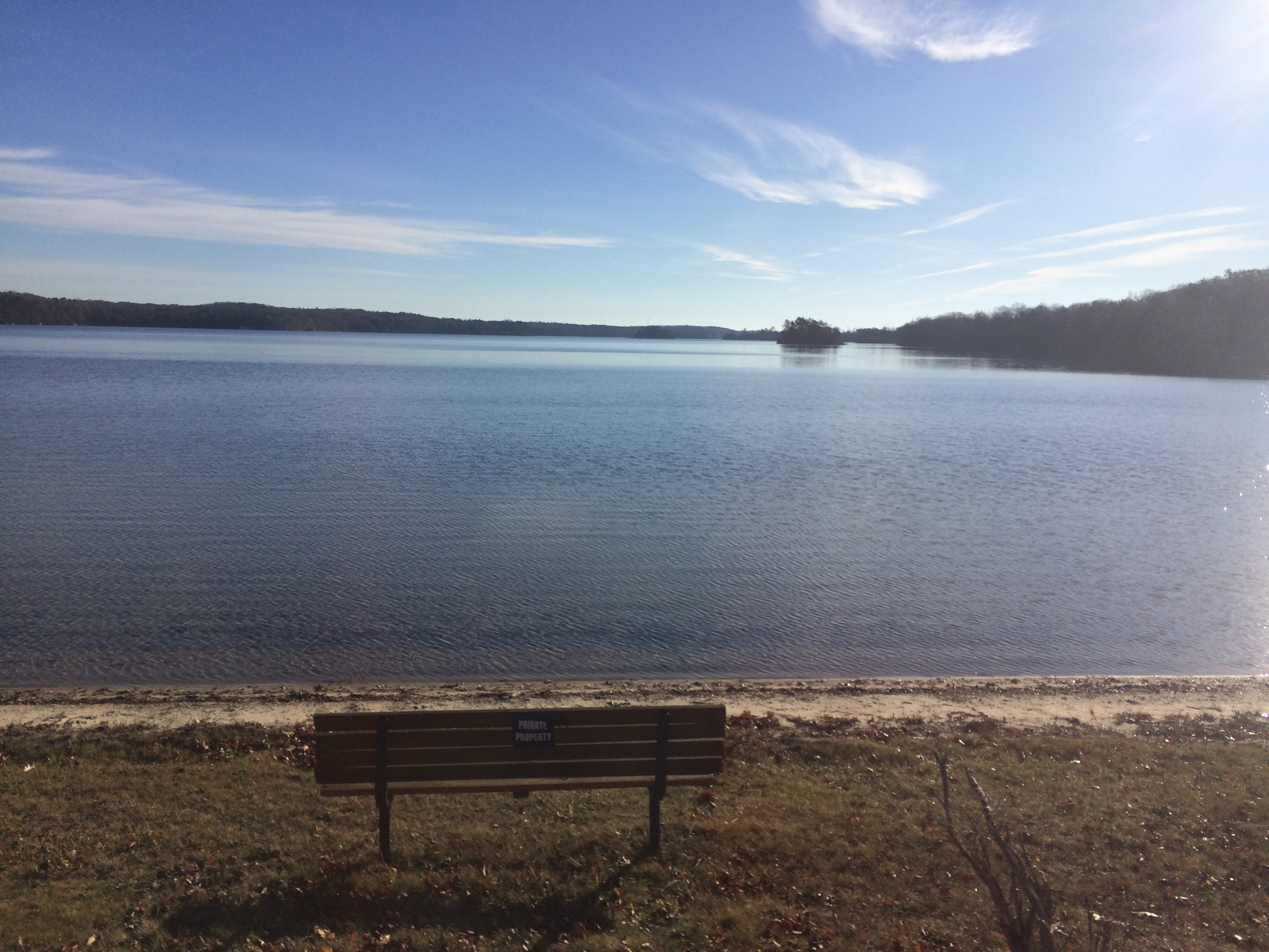 Northwestern shore of Long Lake in Grand Traverse County, Michigan